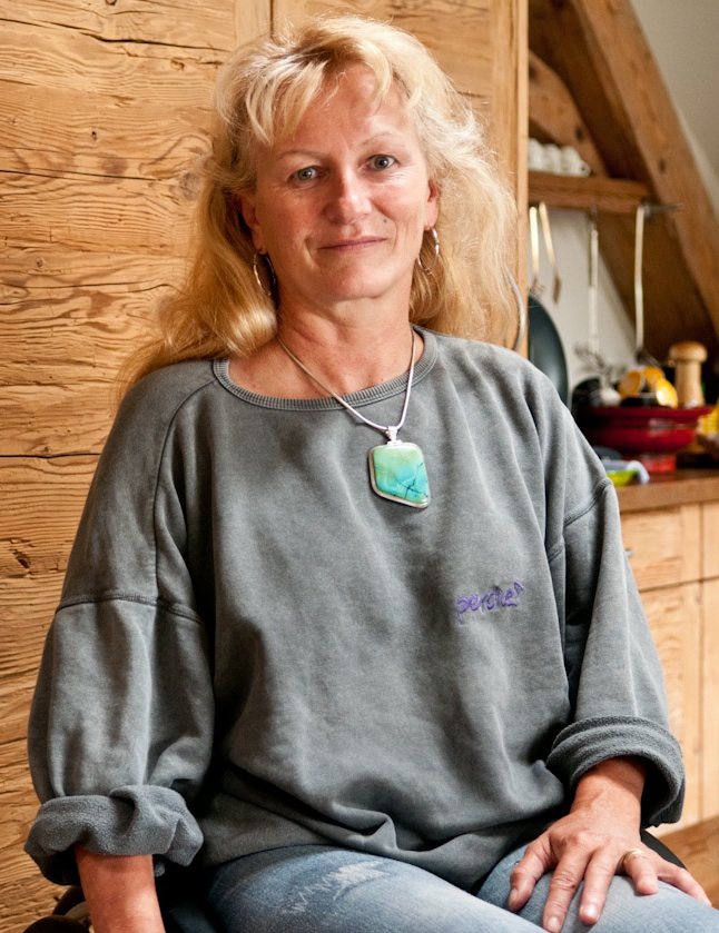 Nicole Niquille, First Swiss Female Alpine Guide